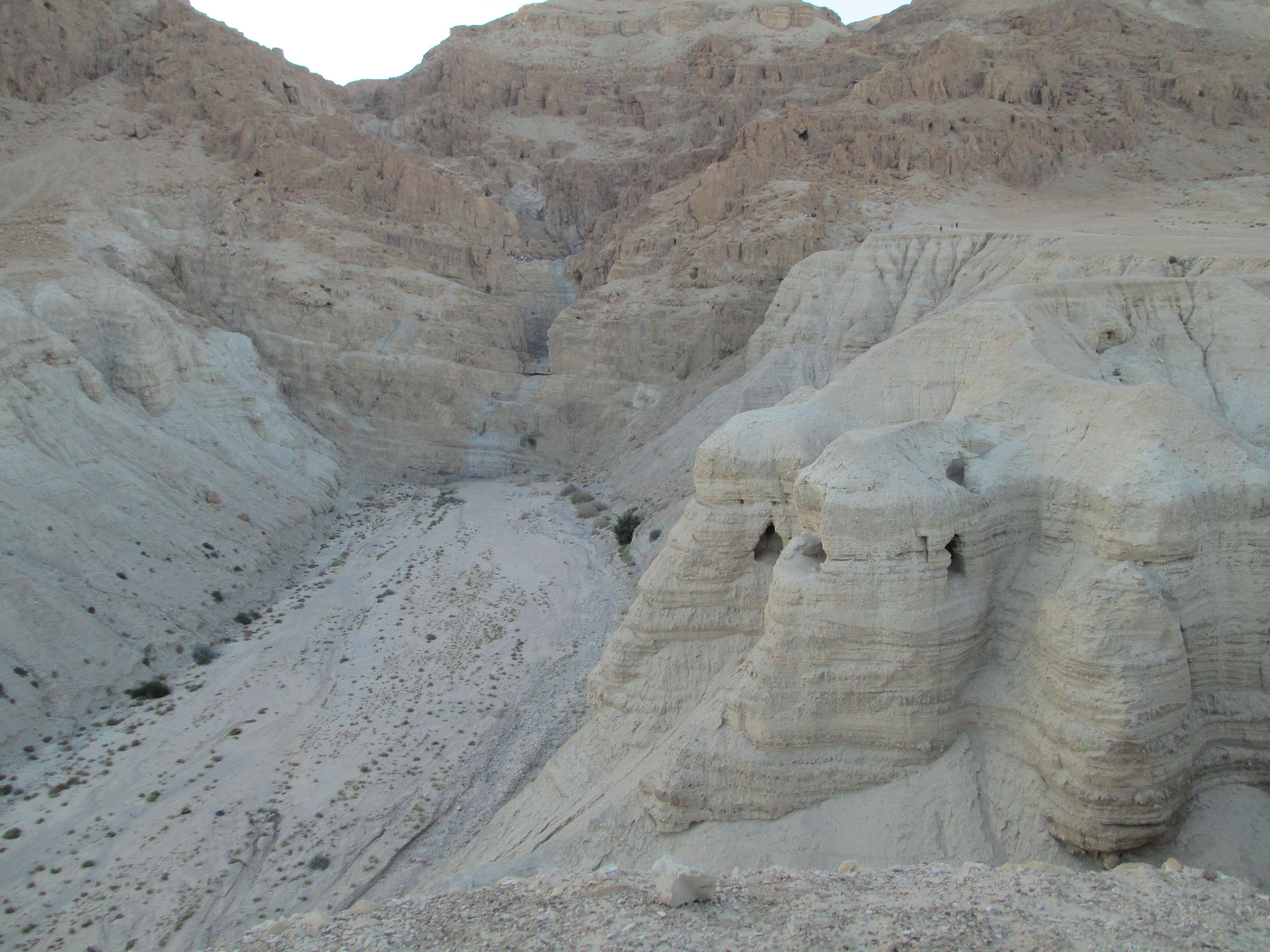 Vadi Qumean and Qumran caves